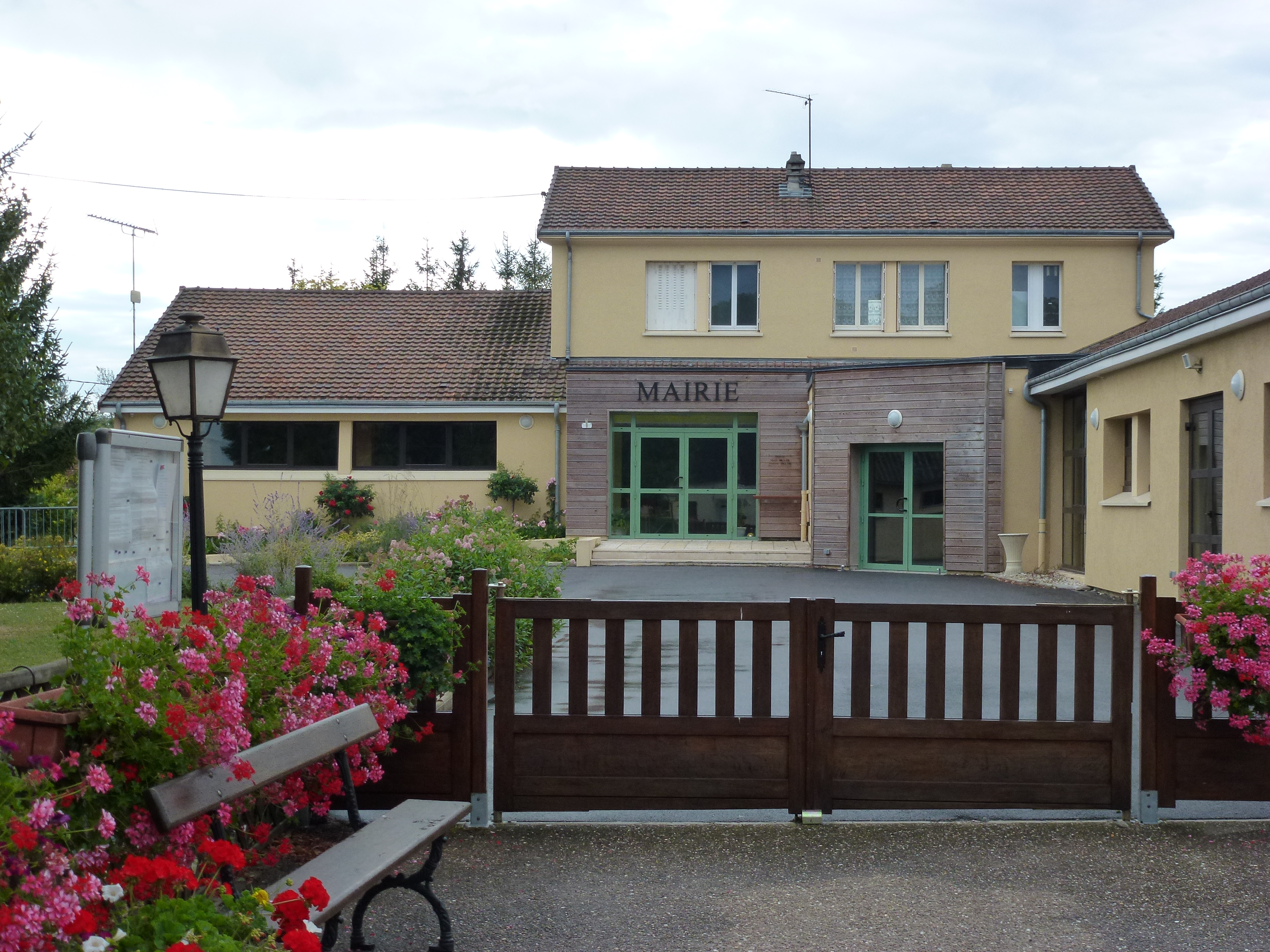 Saulces-Champenoises (Ardennes) mairie